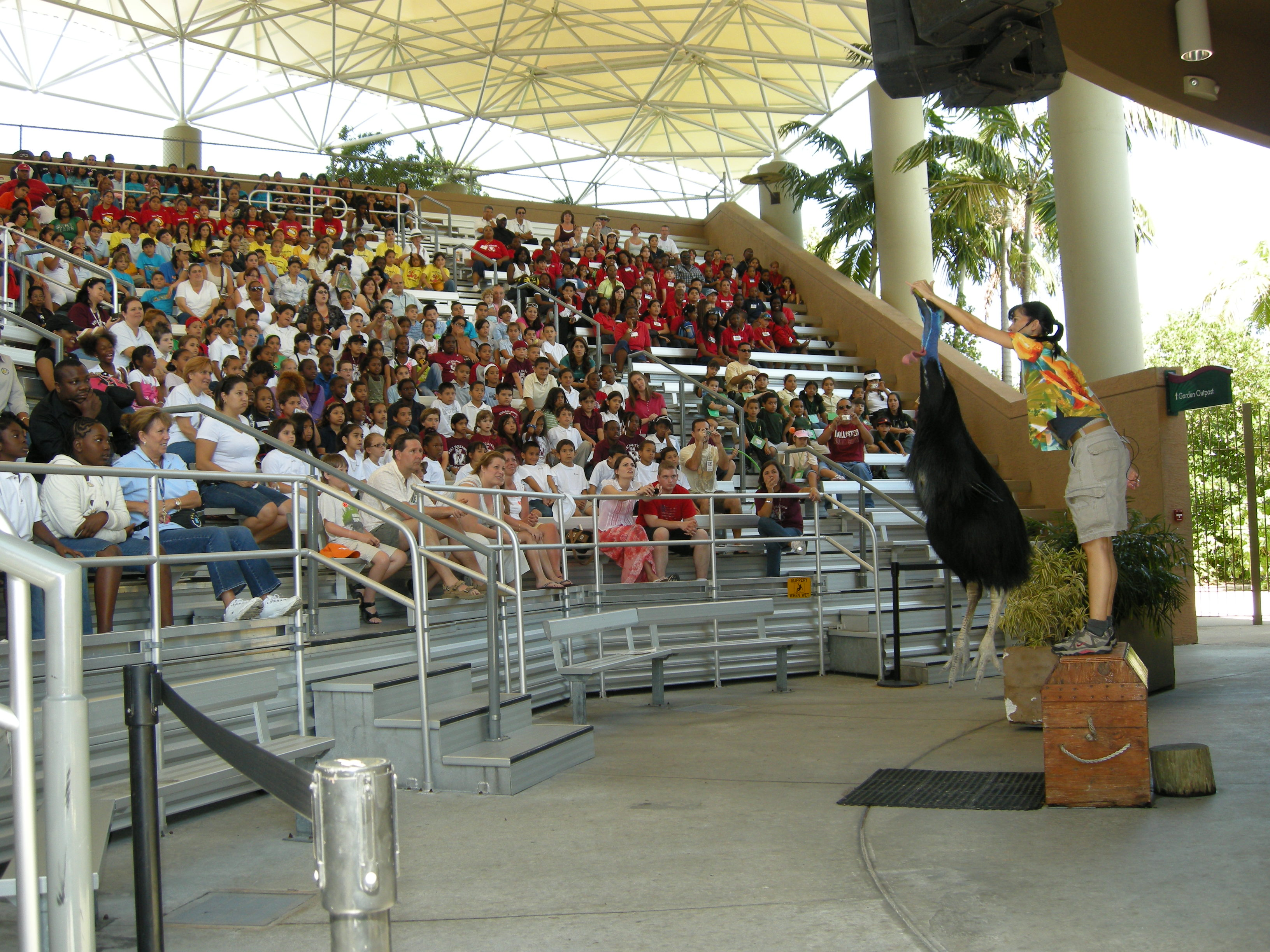 Jungle Island's Southern Cassowary, Mama Cass, jumps in the air for an apple, which she swallows whole, in front of an audience. Mama Cass is the only known tamed Cassowary in a show anywhere in the world.